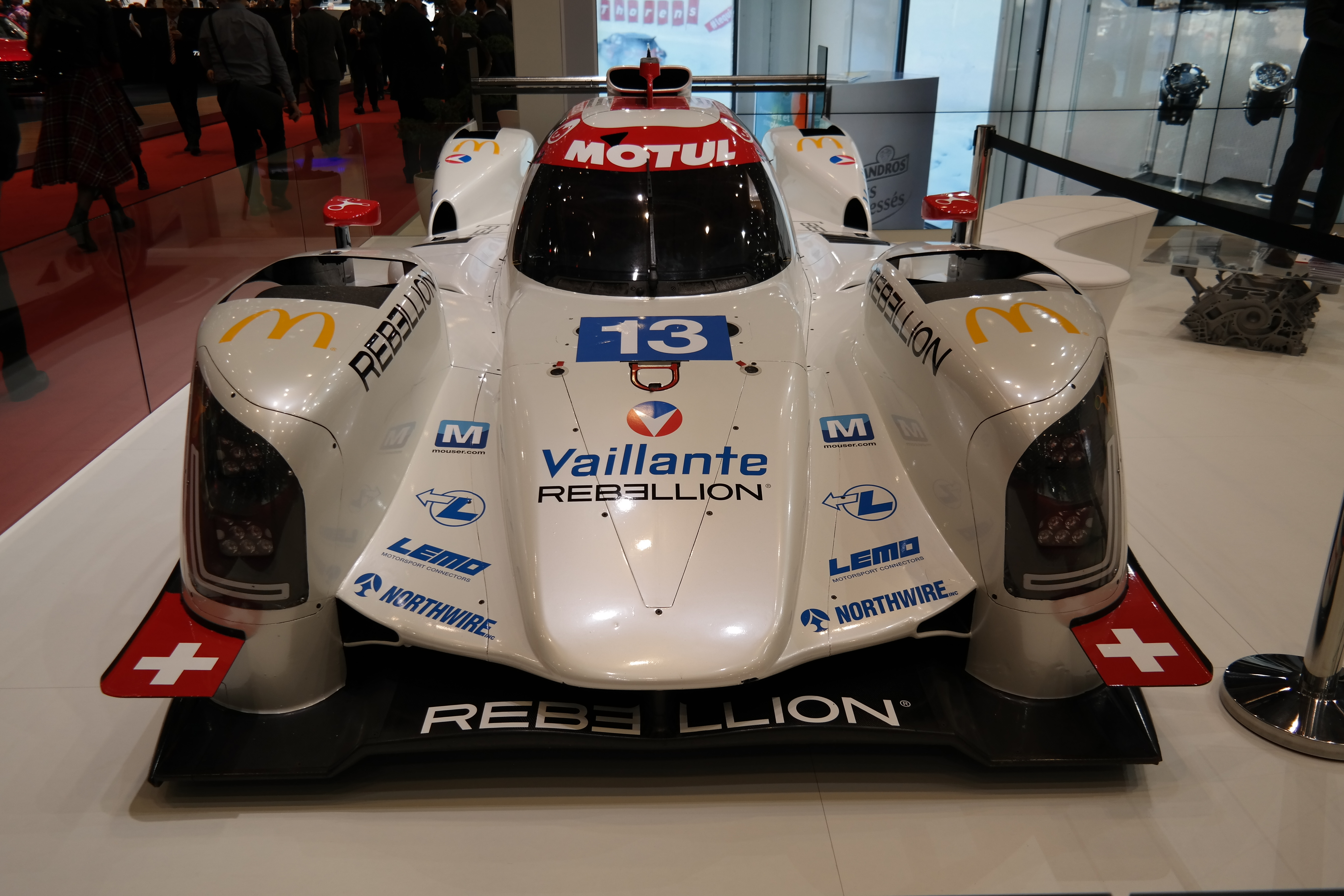 Geneva Motor Show 2017 (photo taken on the first press day)